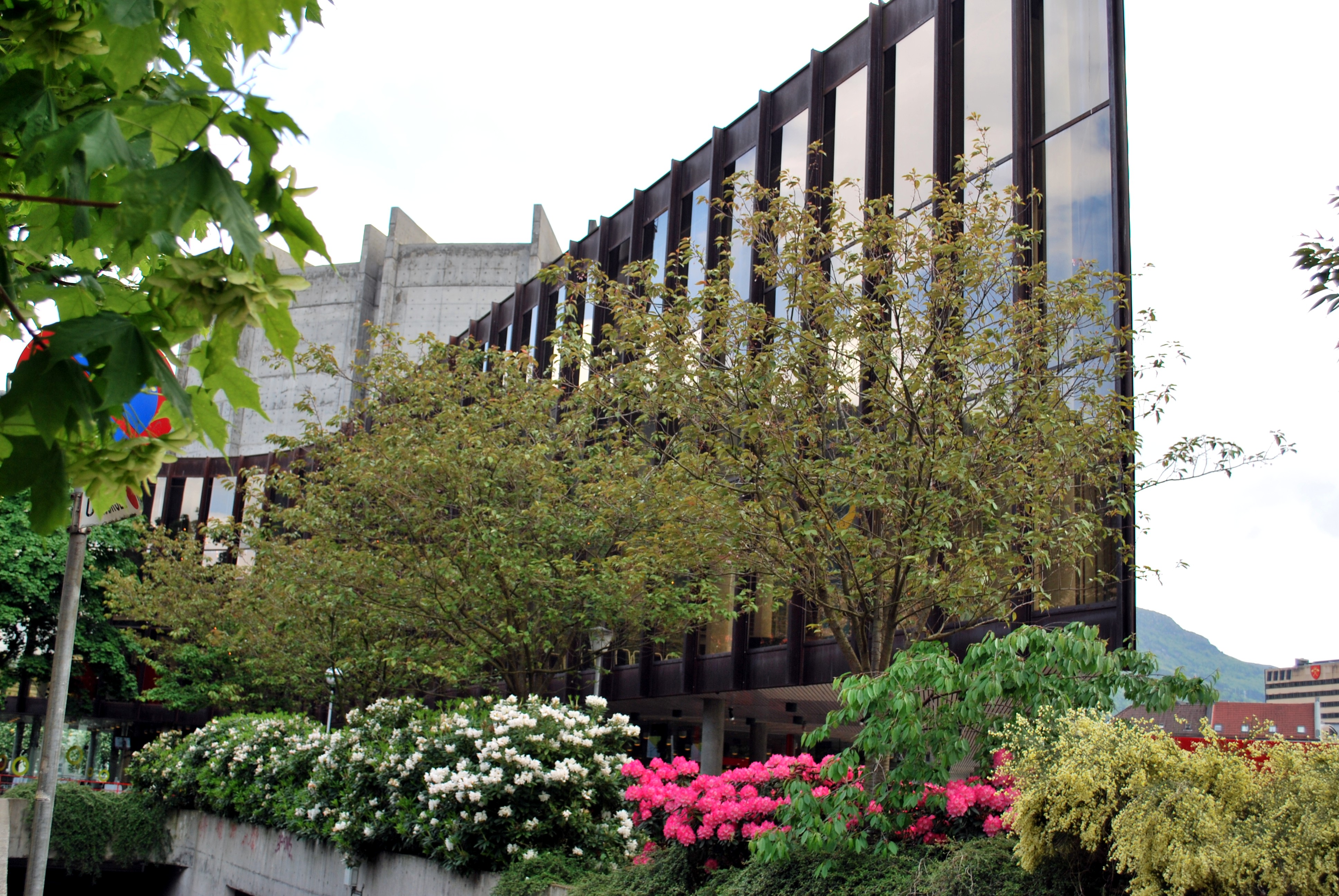 Grieghallen, Bergen.